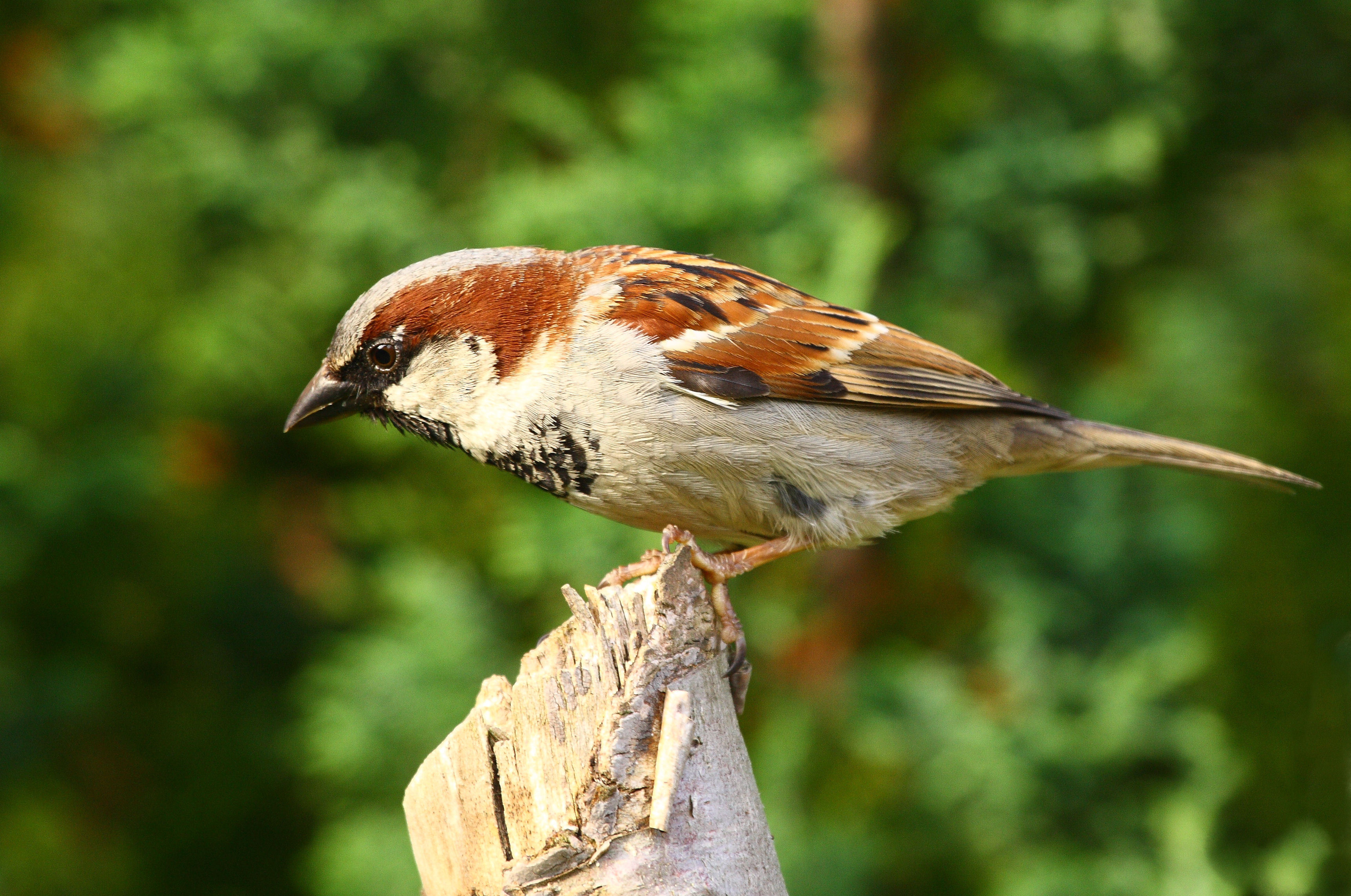 A male House Sparrow in England